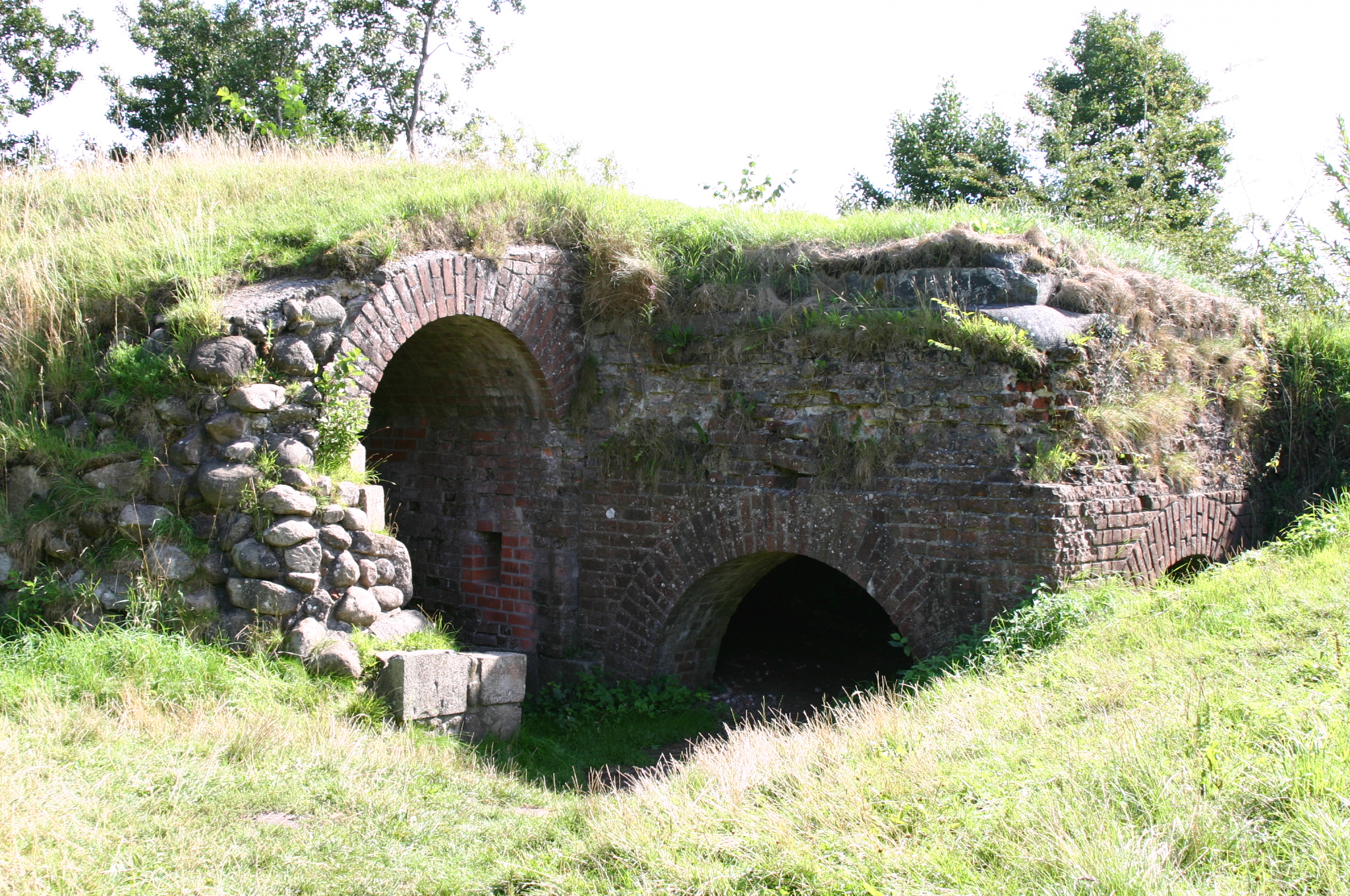 Hald ruin, Viborg, Denmark. Ruins of the bishops castle.